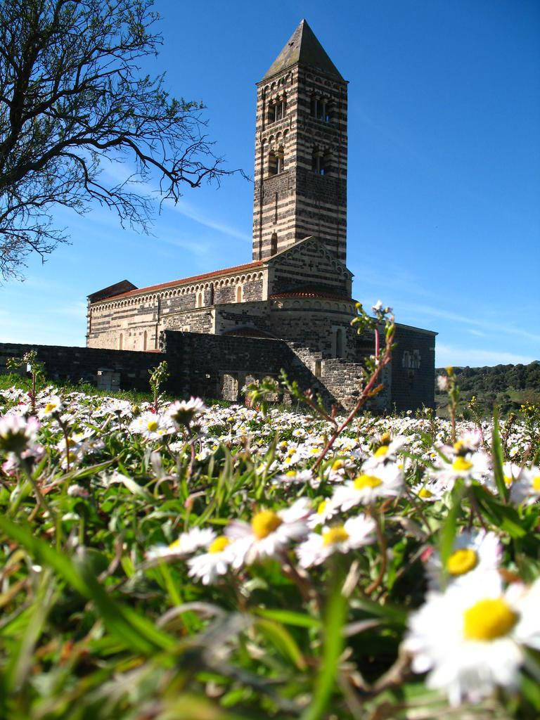 Basilica of santissima trinità of Saccargia, codrongianos, province of sassari, sardinia